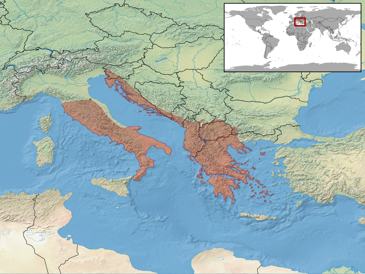 geographic distribution of Elaphe quatuorlineata (Native: Albania; Bosnia and Herzegovina; Croatia; Greece; Italy; Macedonia, the former Yugoslav Republic of; Montenegro; Serbia (Serbia); Slovenia)